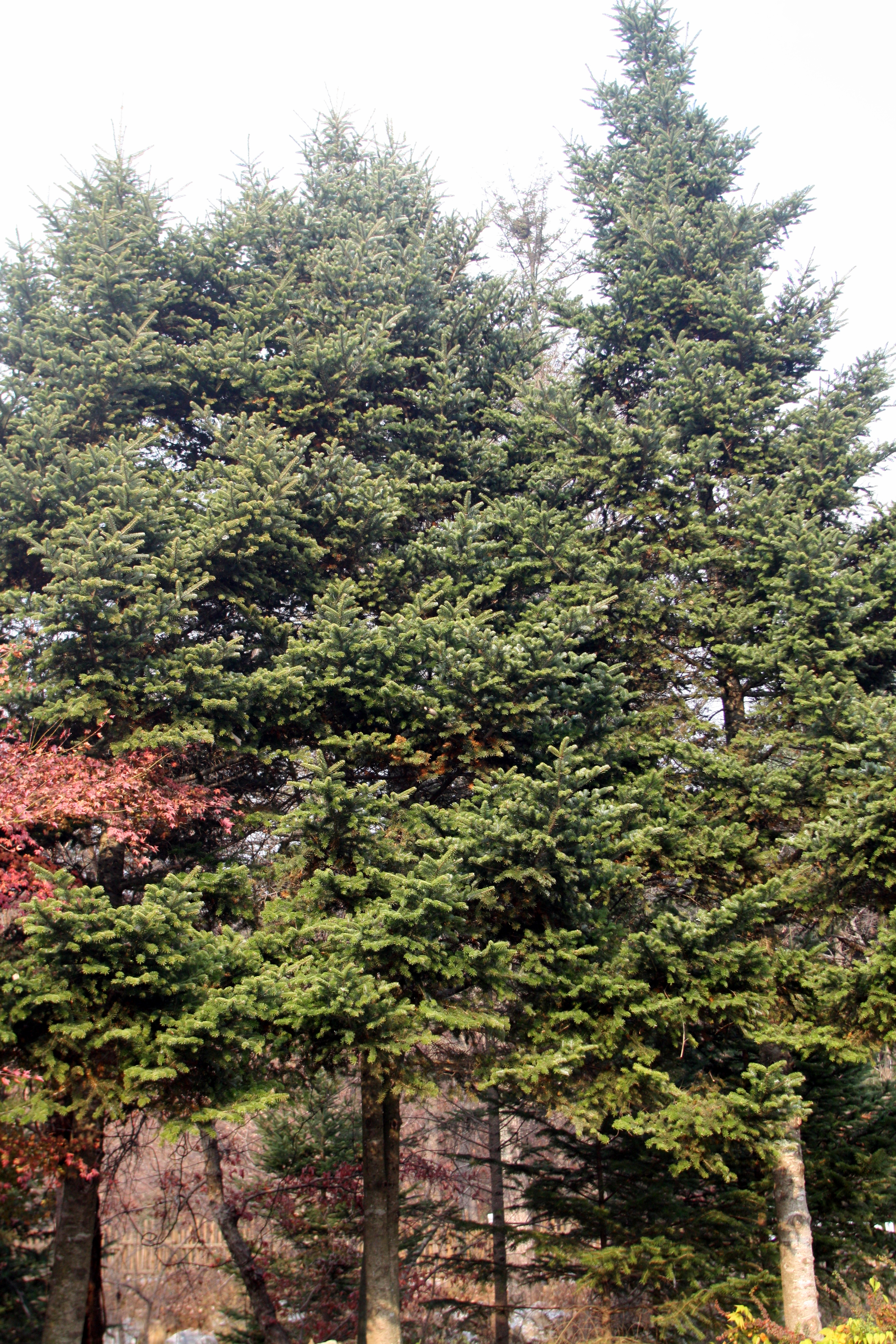 Abies koreana in KOREA NATIONAL ARBORETUM